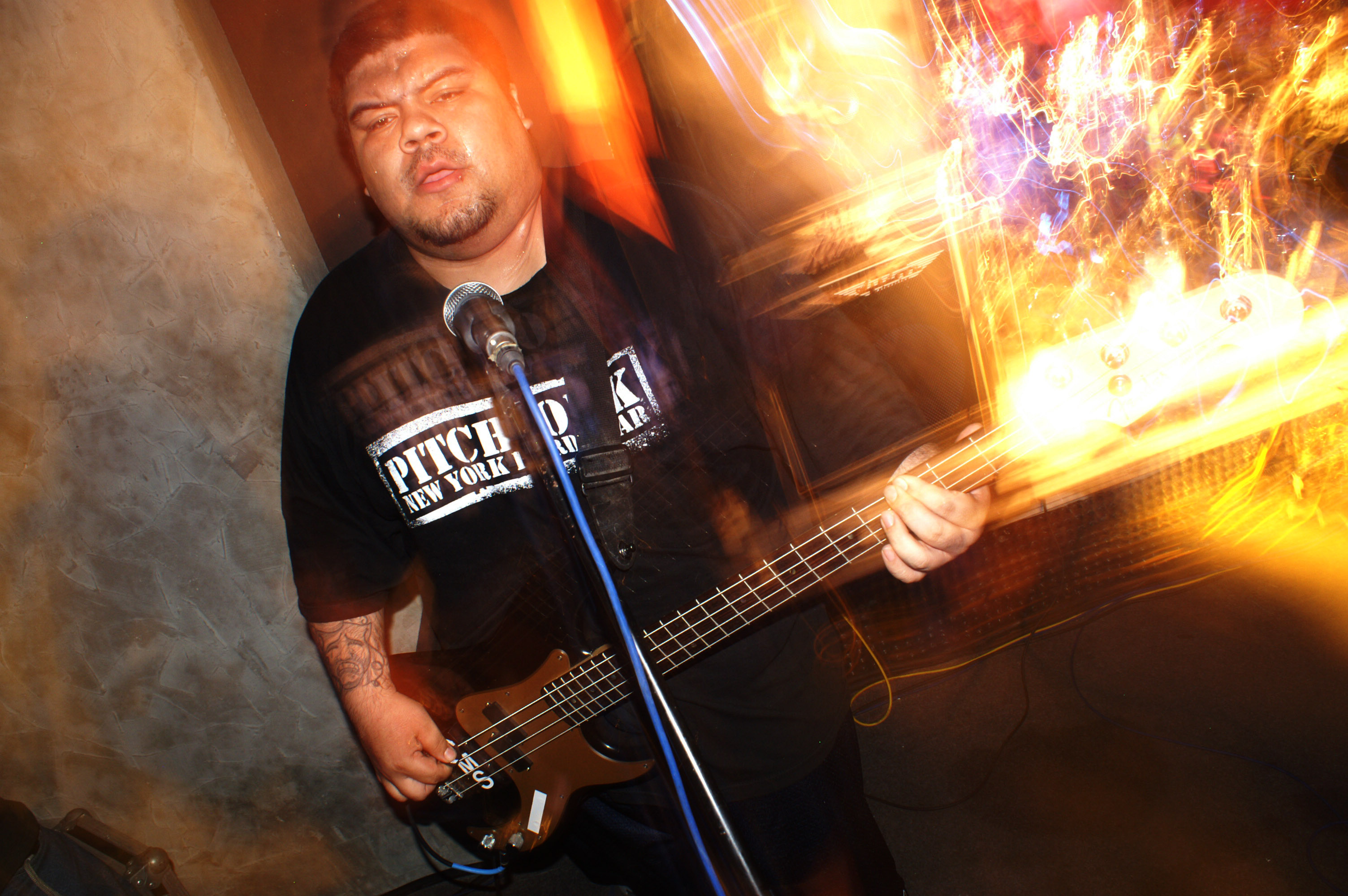 Jorge "Hoya Roc" Guerra – bass. Member of hardcore punk bands: Madball, Dmize. Gig in Bielsko-Biala, Poland, 2006